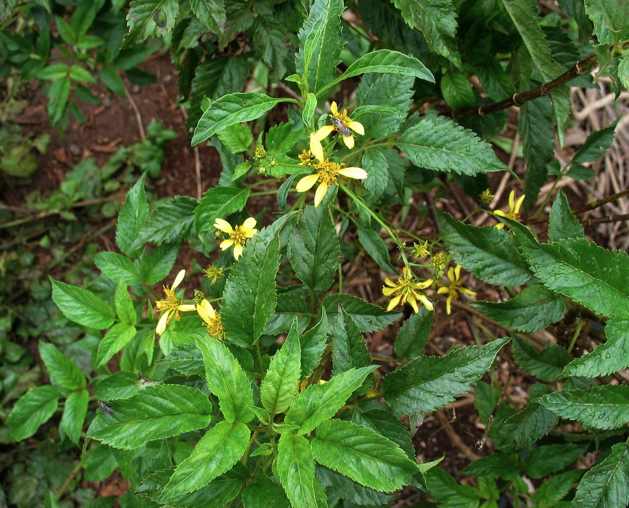 Koʻokoʻolau or Corkscrew beggarticks Asteraceae Endemic to the Hawaiian Islands Oʻahu (Cultivated) Early Hawaiians used the leaves in hot teas and tonics. Today, all species of koʻokoʻolau can be brewed as a tonic and each are said to have distinct flavors. Regarding Bidens spp., Isabella Abbott comments that "I find that the roughly half a dozen species common in Hawaiʻi offer two or three slightly different flavors, each a bit more subtle than commercial black tea." ("Lāʻau Hawaiʻi: Traditional Hawaiian Uses of Plants")